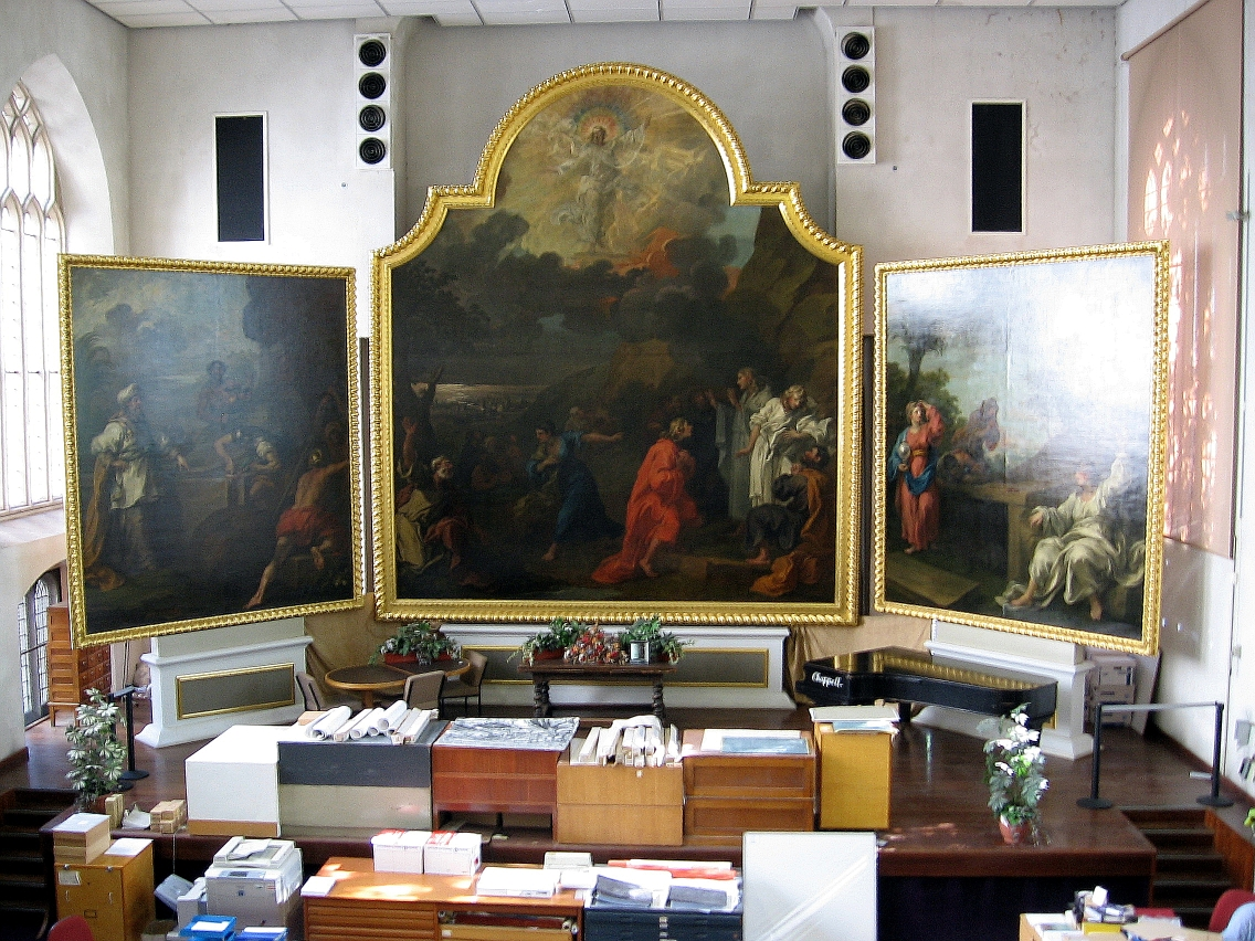 The Hogarth altar triptych, St Nicholas, Bristol